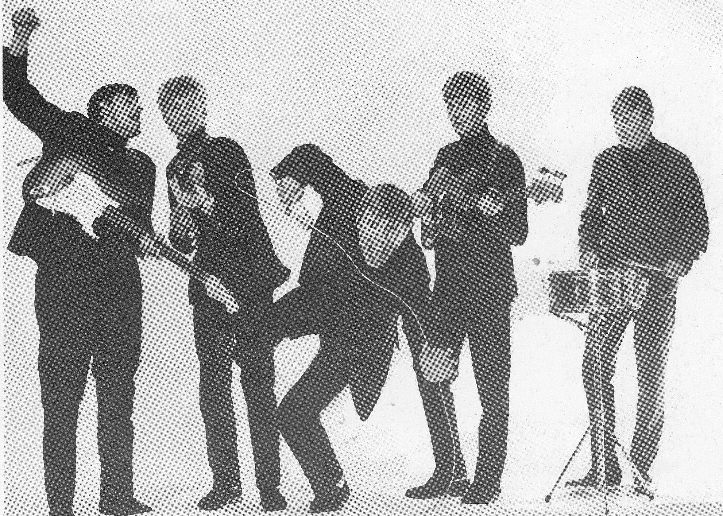 Islanders group 1964